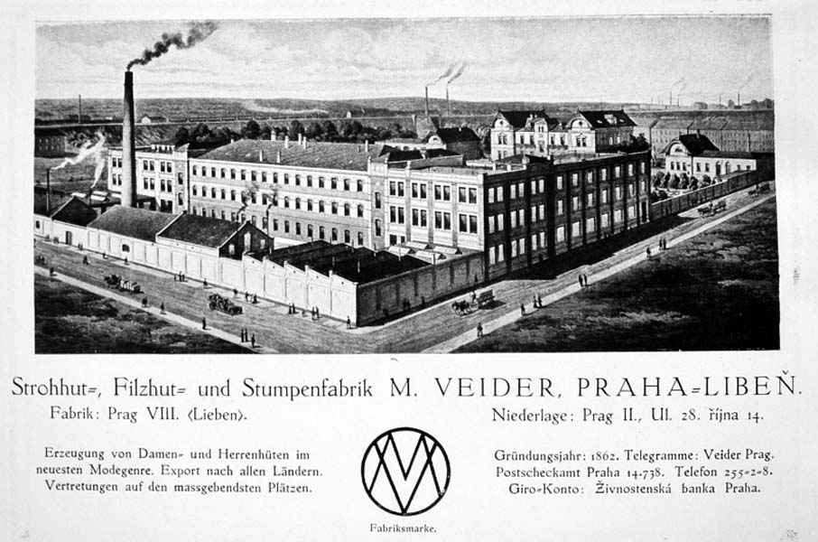 M. Veider hat factory, Prague, 1927